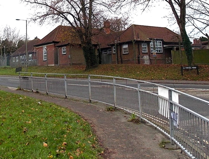 NE corner of Vauxhall Barracks, Didcot